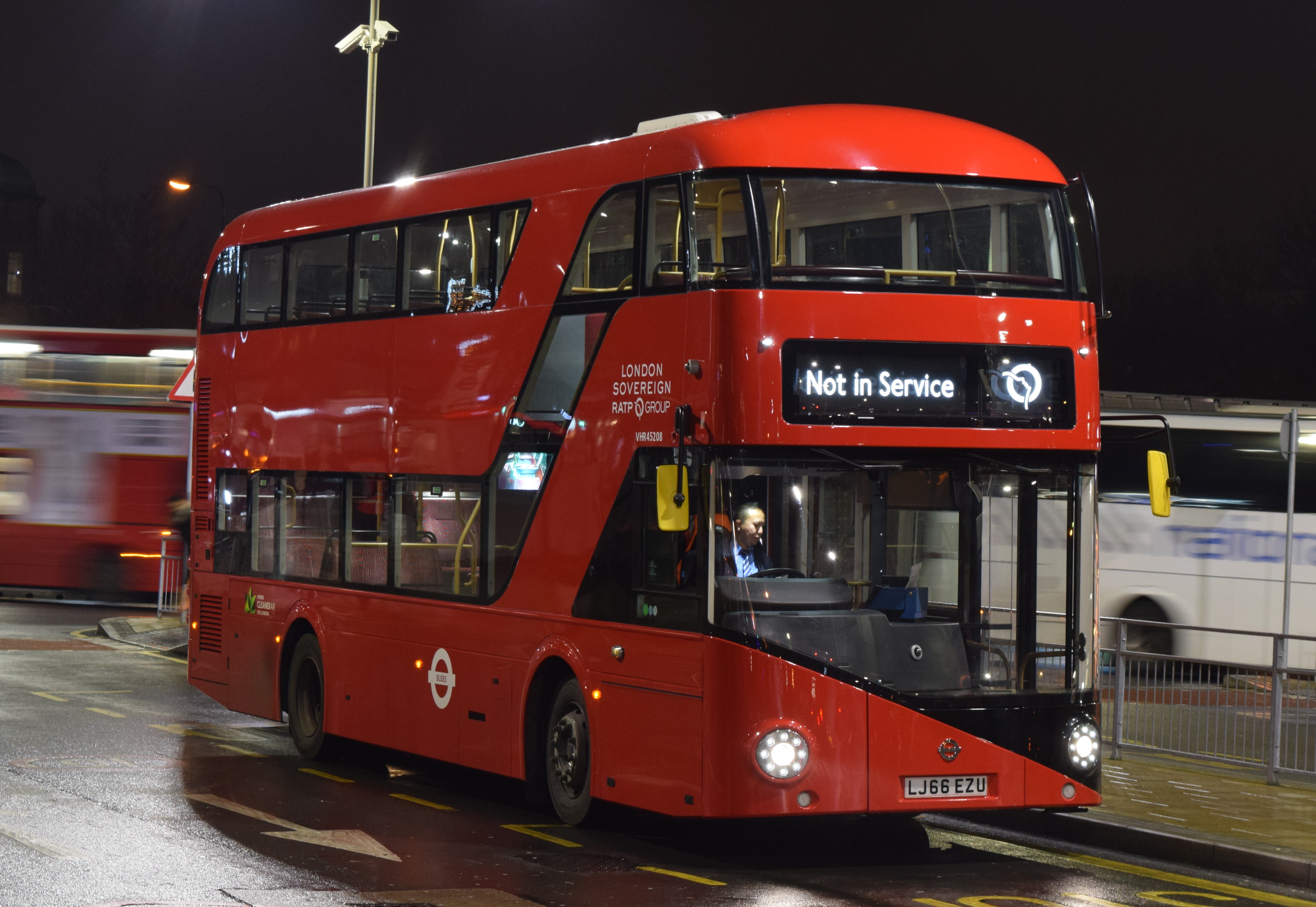 Wright Short Routemaster on a Volvo B5LH Euro 6 chasis.